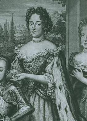 Marie Casimire Sobieska, Polish queen